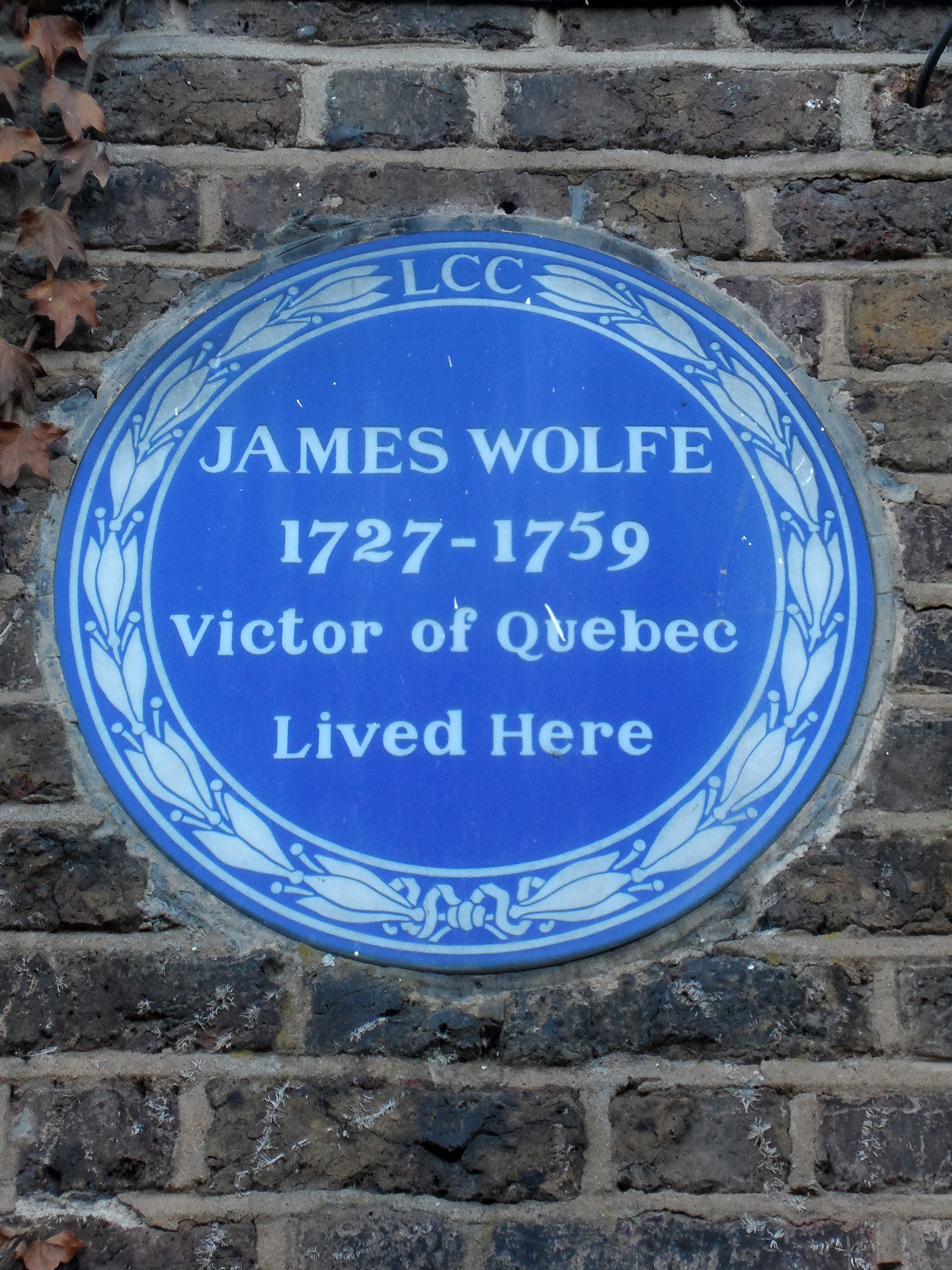 Blue plaque erected in 1909 by London County Council at Macartney House, Greenwich Park, London SE10 8HJ, London Borough of Greenwich